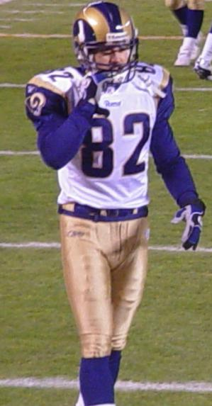 Mike Furrey warming up during his return to Ohio game, Monday December 8, 2003 at Cleveland Browns Stadium.